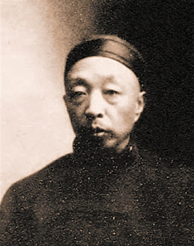 Huang Shaoji (1854－1908)